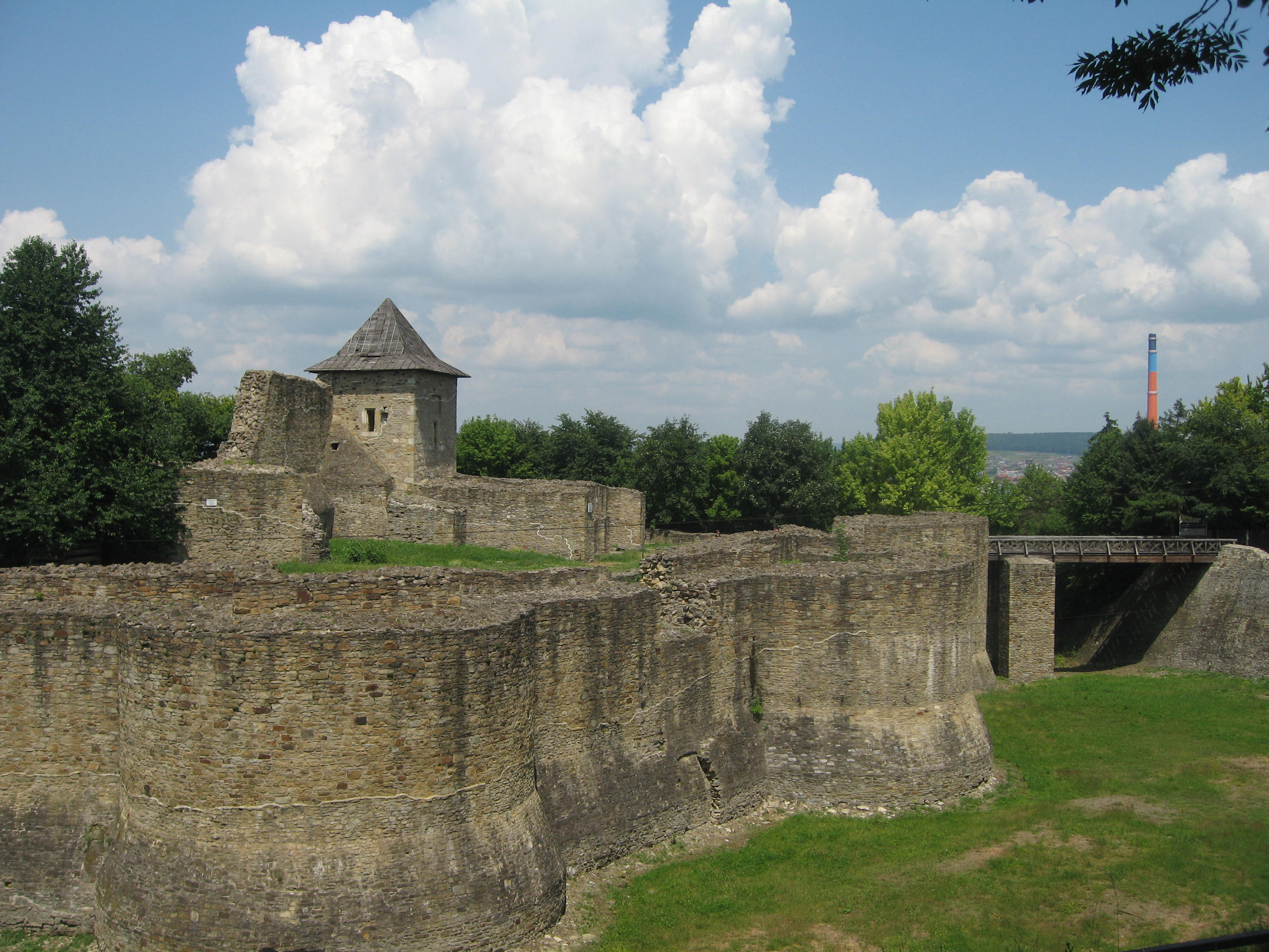 Seat Fortress of Suceava – the eastern part.